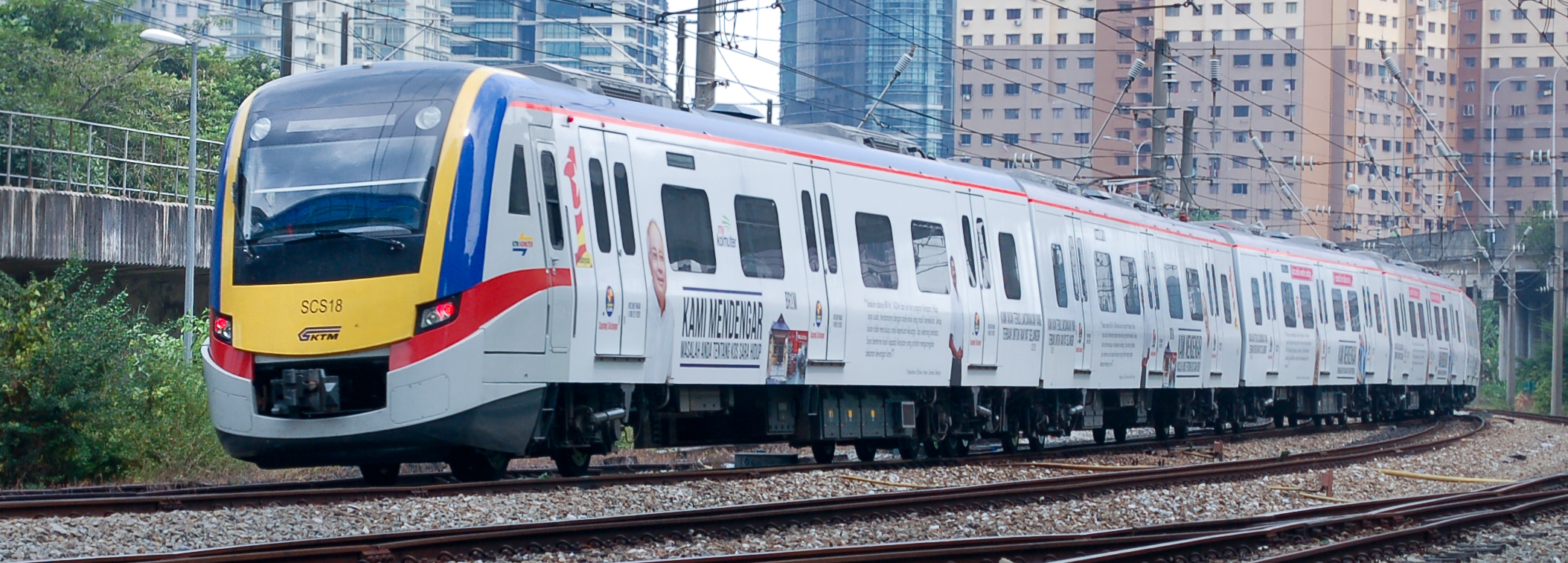 KTMB Class 92 SCS 18